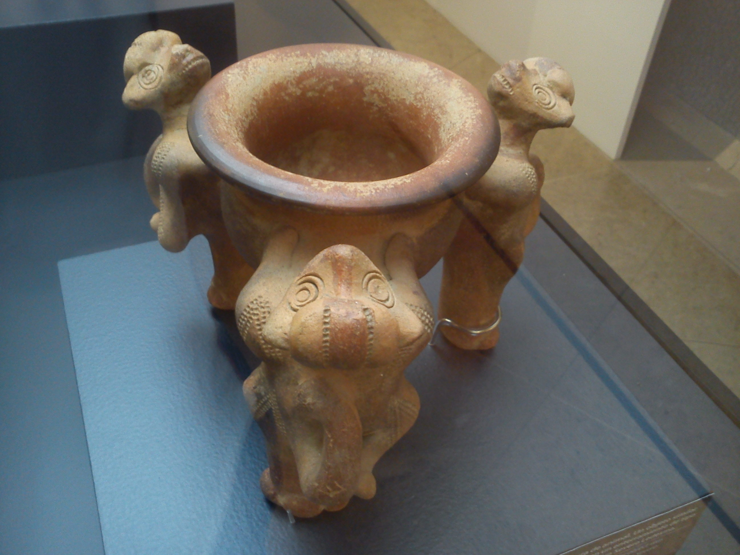 Ticaban tripod bowl from Central Caribean Costa Rica. El Bosque Phase, 300 BC-300 AC.